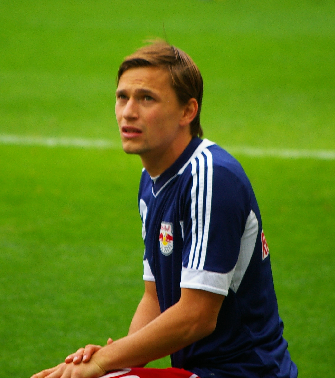 league match Austrian Bundesliga